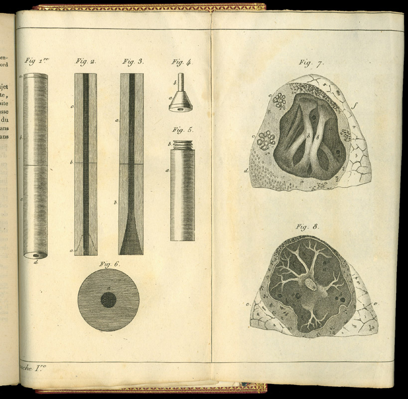 René-Théophile-Hyacinthe Laennec (1781-1826) De l’auscultation médiate.... Drawings of the stethoscope and lungs.